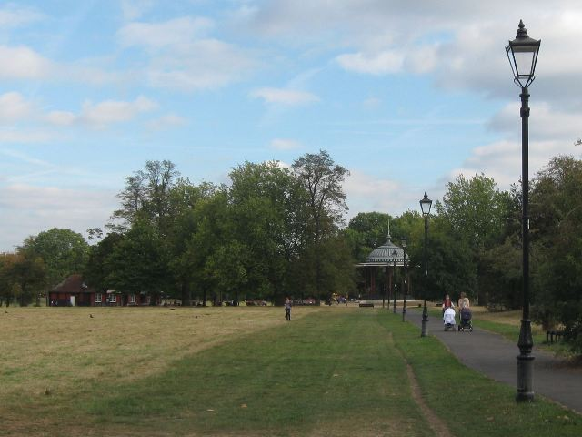 Victorian style lamp posts on the way to Clapham Common Bandstand One of the radiating paths that come together at the bandstand at the centre of the common